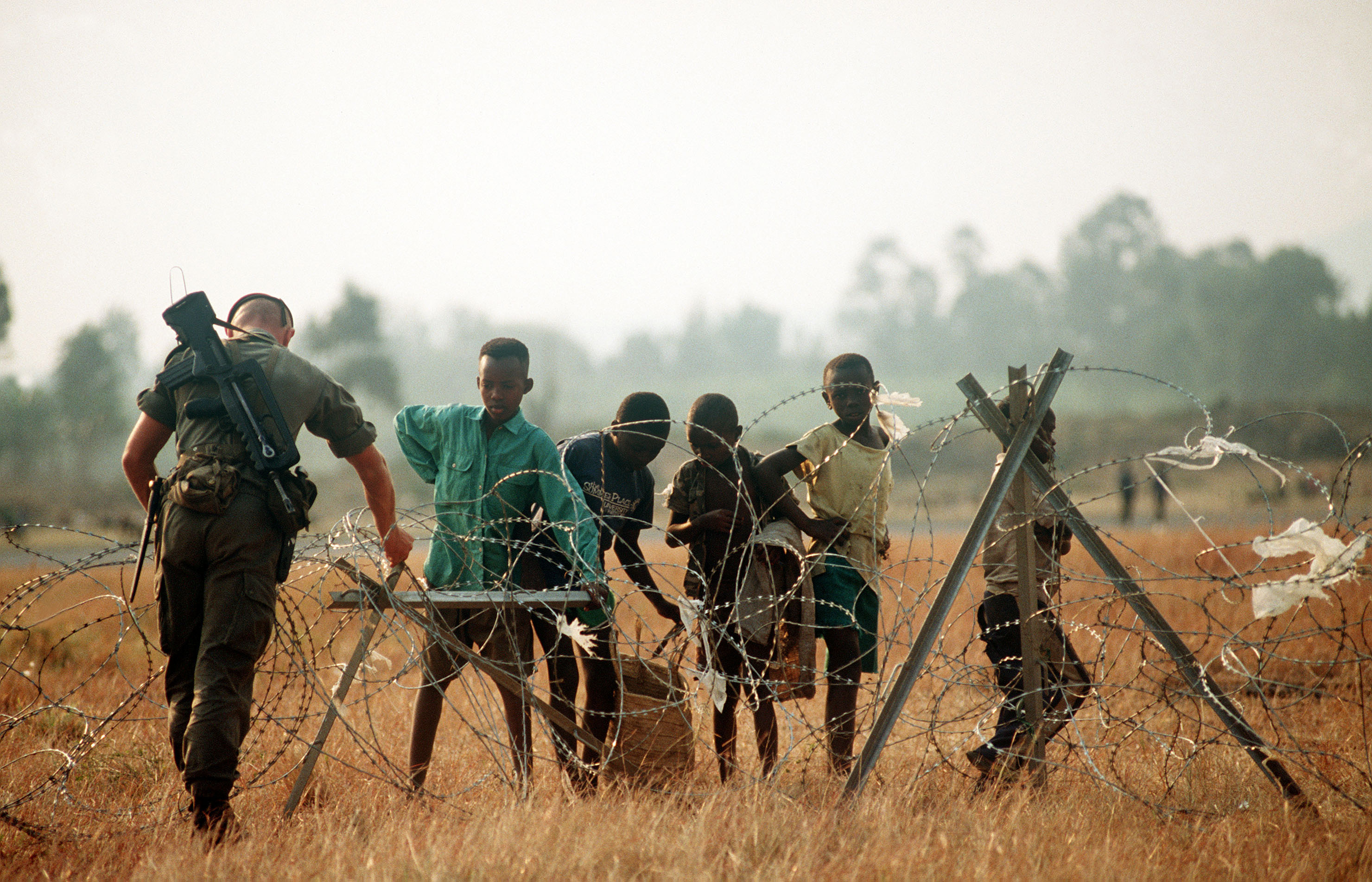 A French soldier, one of the international force supporting the relief effort for Rwandan refugees, adjust the concertina wire surrounding the airport. (Released to Public)